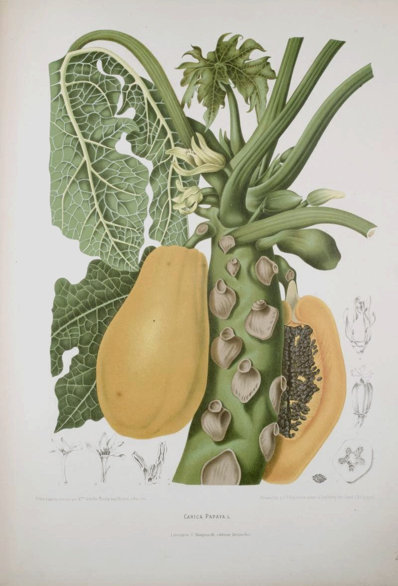 Carica papaya L. from "Fleurs, Fruits et Feuillages Choisis de l'Ile de Java" [Selected Flowers, Fruit and Foliage from the Island of Java]